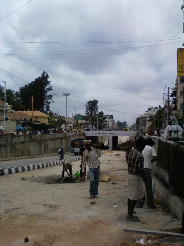 Reinforced Concrete Cement, Precast Magic Box, at Hosur Road - Inner Ring Road Junction at Madiwala.